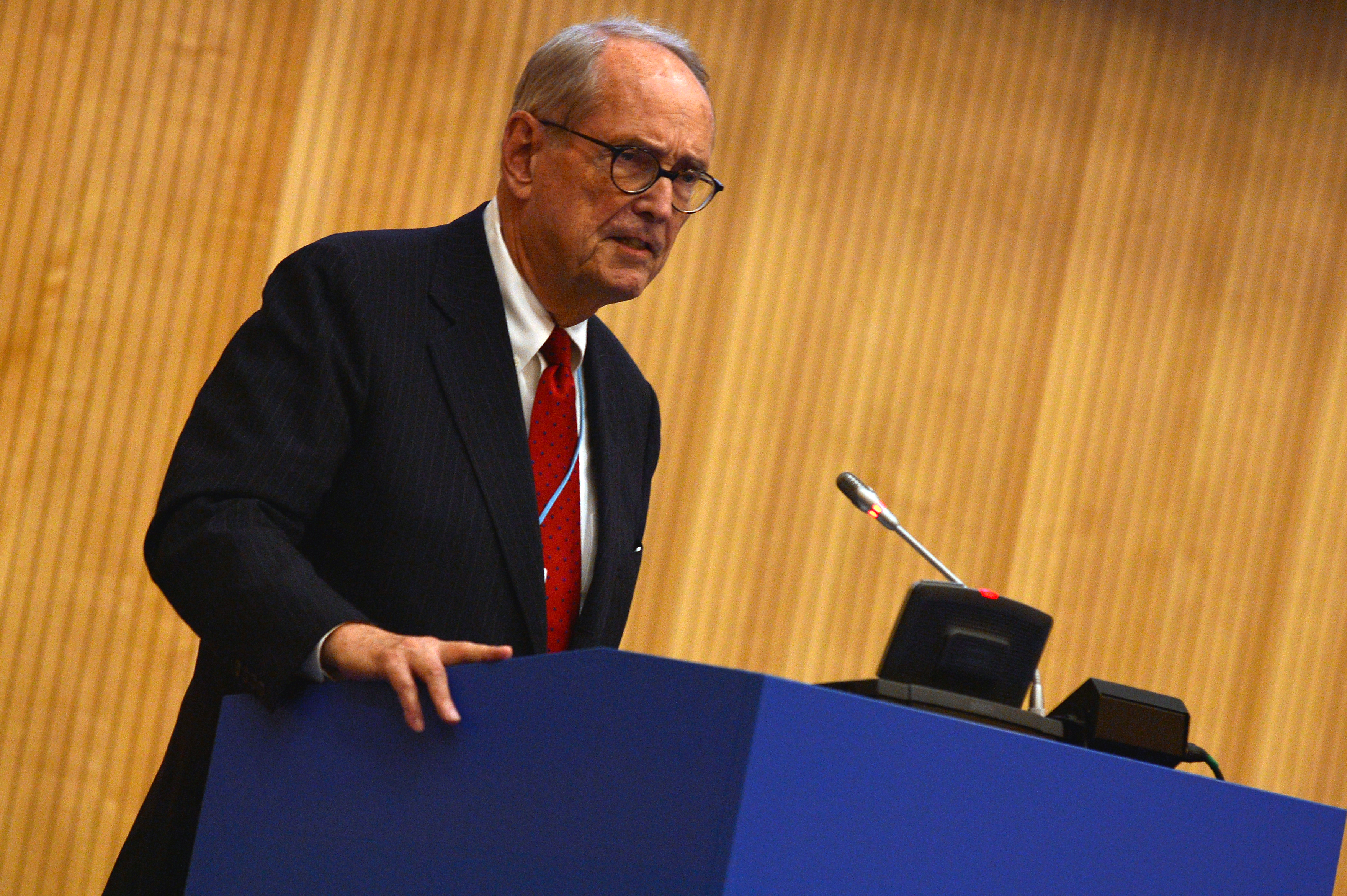 International Expert’s Meeting on Enhancing Transparency and Communications Effectiveness in the Event of a Nuclear or Radiological Emergency. IAEA Vienna, Austria, 18-20 June 2012 Copyright: IAEA Imagebank Photo Credit: Dean Calma / IAEA